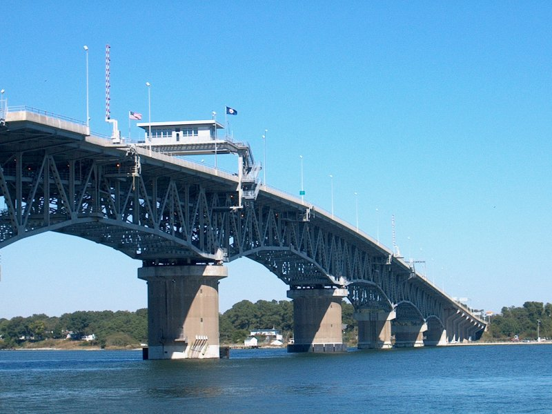 The Coleman Bridge as seen from Yorktown as it connects with Gloucester Point. © 2005 Wyatt Greene